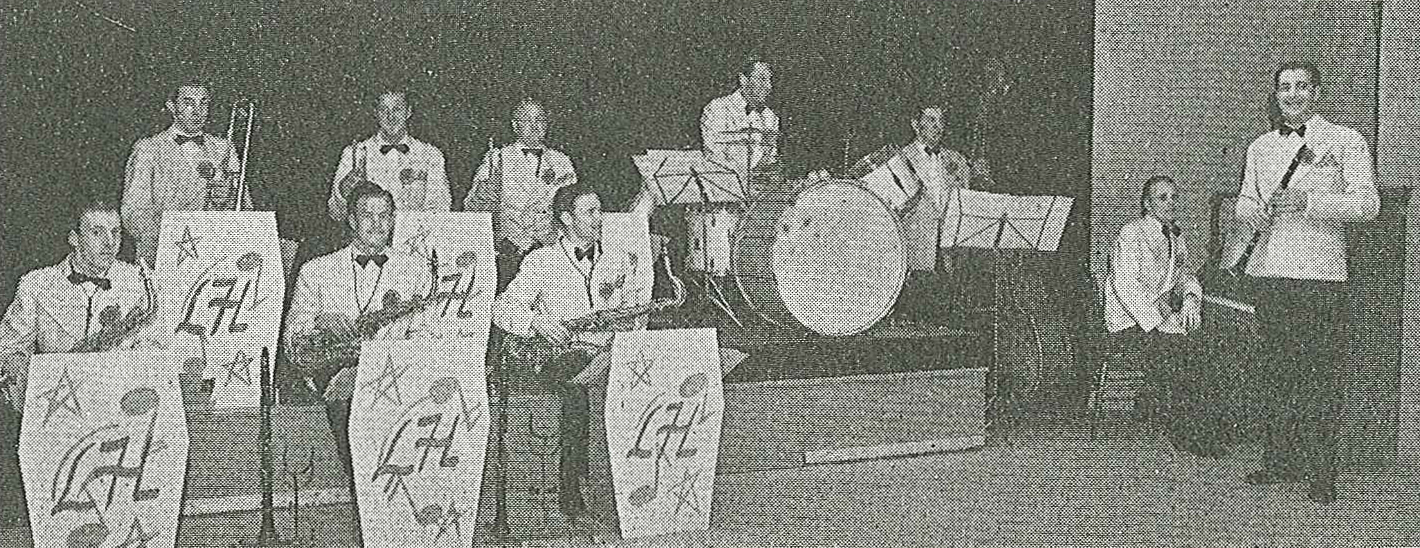 To the extreme right: Swedish actor, comedian and clarinetist Pierre Colliander (1912-1956) as a guest performer with "Sylmés orkester" in Borås, 1942.